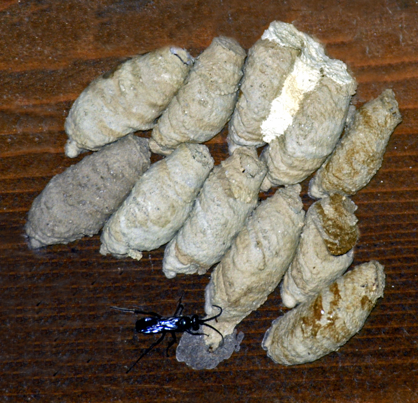 Chalybion sp. wasp using old nest cells of Sceliphron sp., hence the different (white) building material for the caps of the cells. From Sant'Albano Stura, Cuneo, Italy